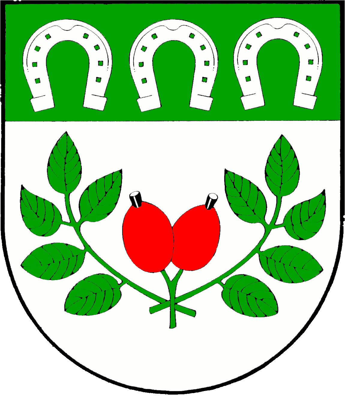 Coat of arms of the municipality Haby in Schleswig-Holstein, Germany.